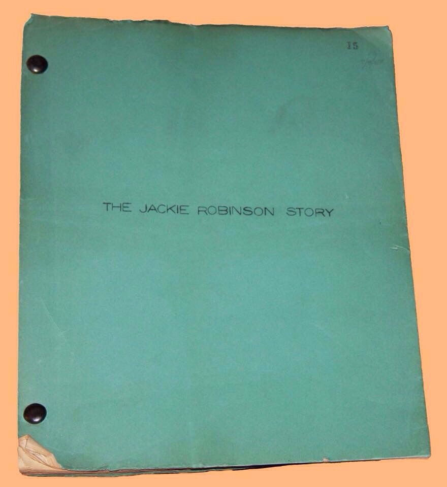 Original Jackie Robinson Story screenplay